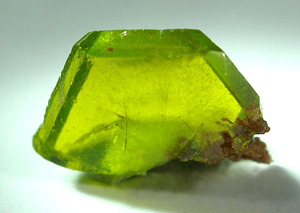 Despujolsite Locality: N'Chwaning III Mine, N'Chwaning Mines, Kuruman, Kalahari manganese fields, Northern Cape Province, South Africa (Locality at ) A remarkable flattened crystal showing a hexagonal form and finely serrated edges. Note that these are spectrum sensitive and the photos show the piece under both halogen (moss green color) and under fluorescent (brighter apple-green color) lighting. Collected in the summer of 2010. Analyzed by Dr. Robert Downs at the University of Arizona. 0.7 x 0.3 x 0.2 cm.